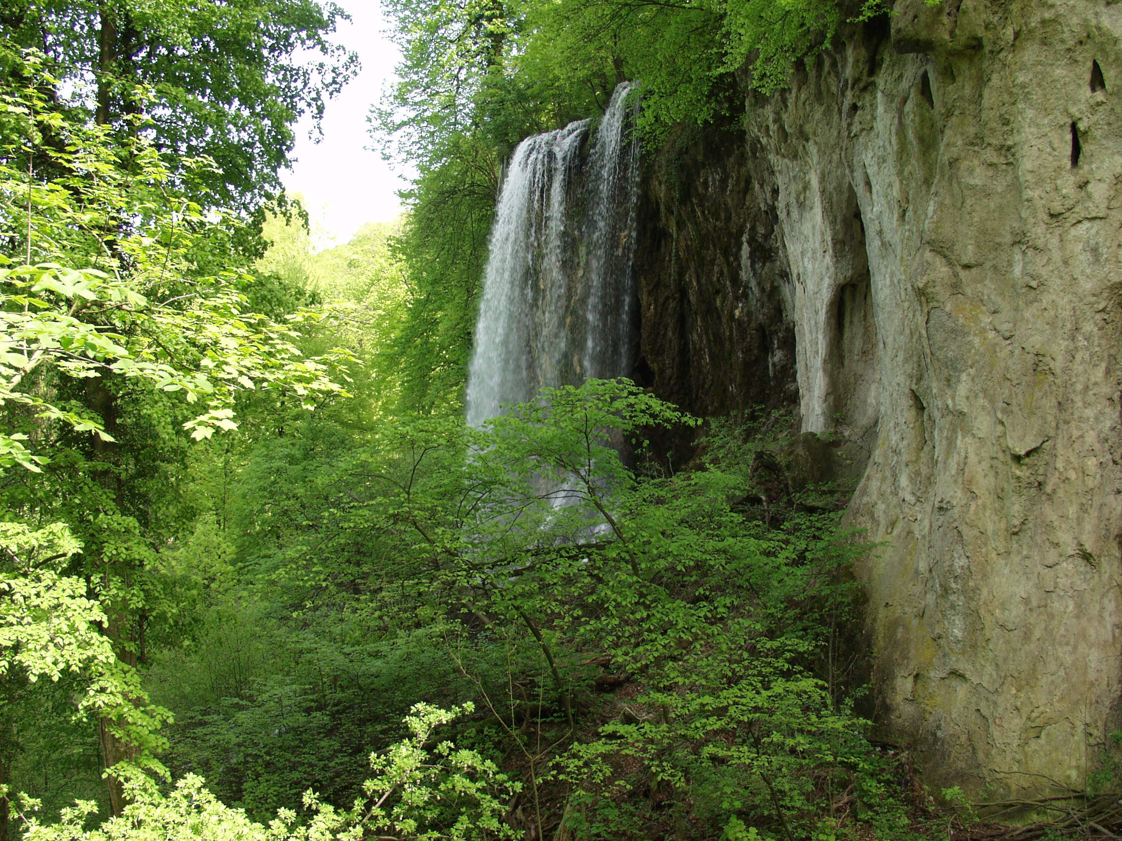 Waterfall "Grasshoper" in Park forest Jankovac